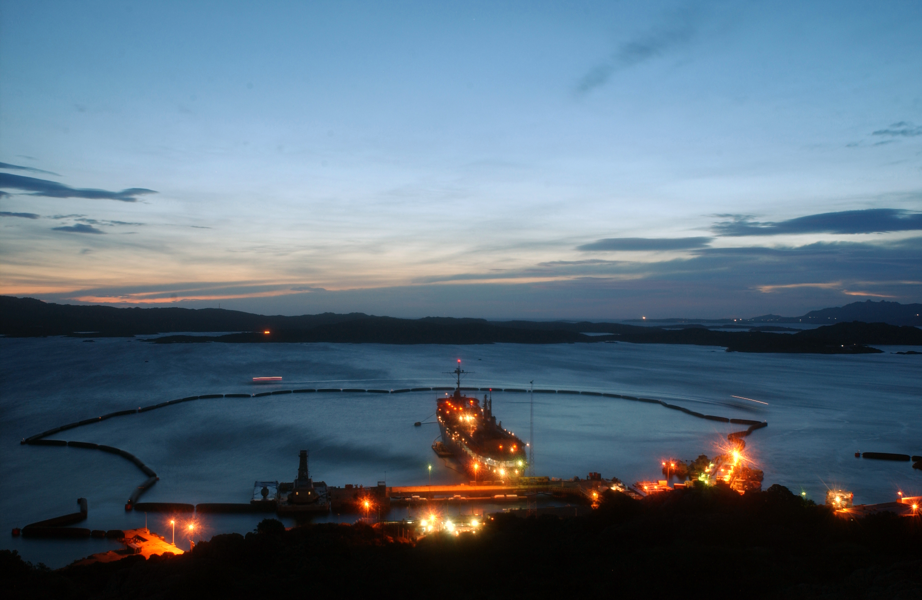 Santa Stefano, Italy (Jan. 14, 2004) -- The sun rises behind the submarine tender USS Emory S. Land (AS 39). Emory S. Land is the only forward deployed submarine tender in the Western hemisphere. Submarine Tenders furnish maintenance and logistic support for nuclear attack submarines. U.S. Navy photo by Photographer’s Mate Airman Wes Marquis. (RELEASED)